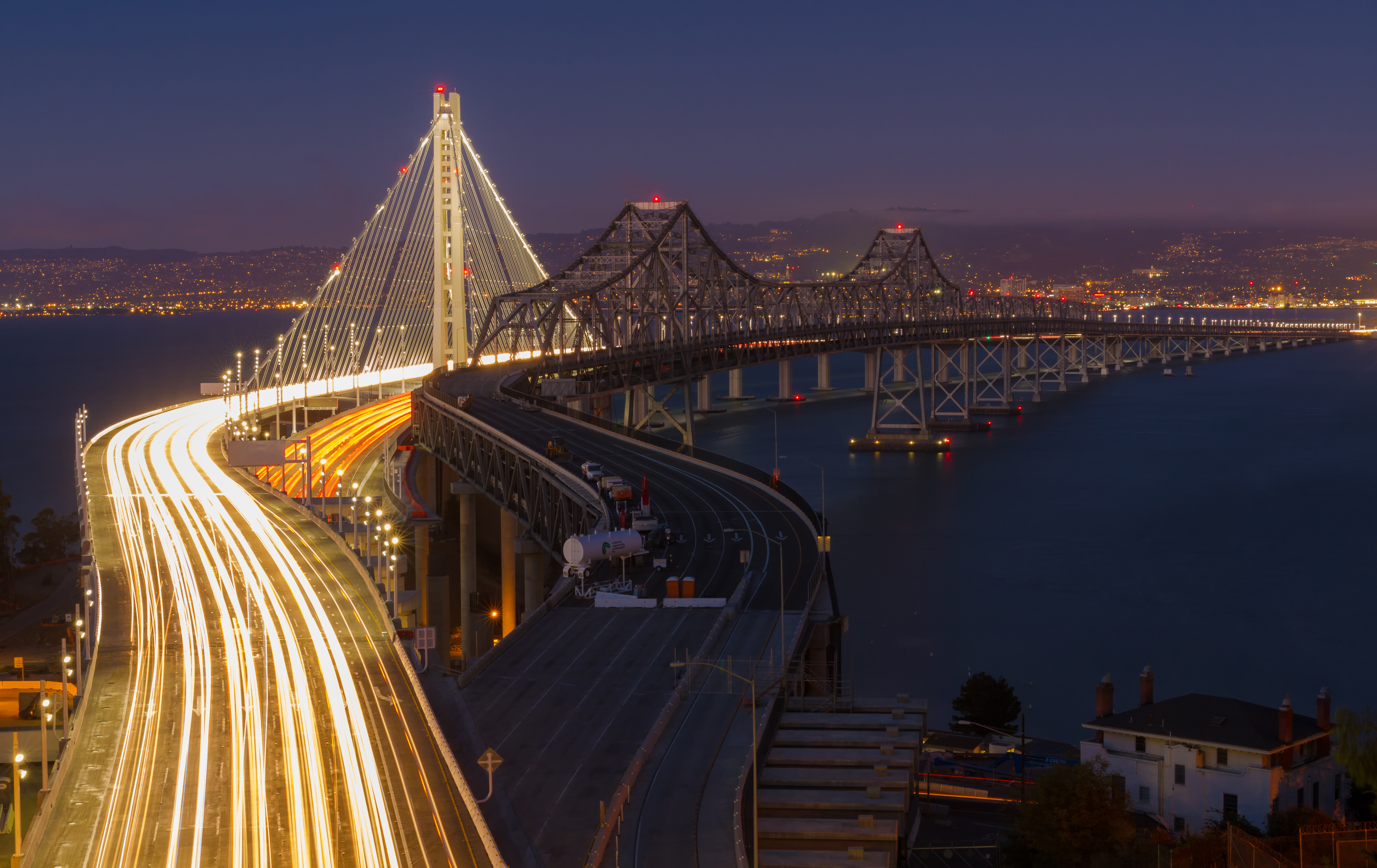 Eastern span of the San Francisco–Oakland Bay Bridge. The old and the new bridge, as seen at night from Yerba Buena Island to Oakland (mid September 2013).